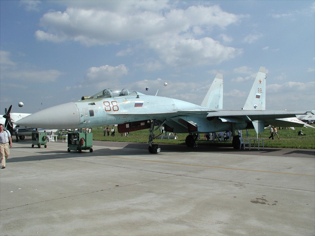 Sukhoi Su-35 multirole fighter at MAKS-2001 airshow